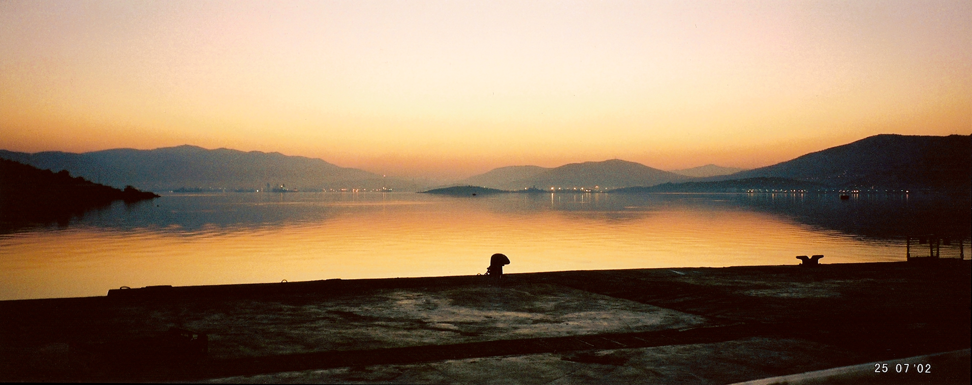 Skaramagas in the distance, flames are barely visible on the chimneys of the refinery. Taken with a Canon IXUS APS camera